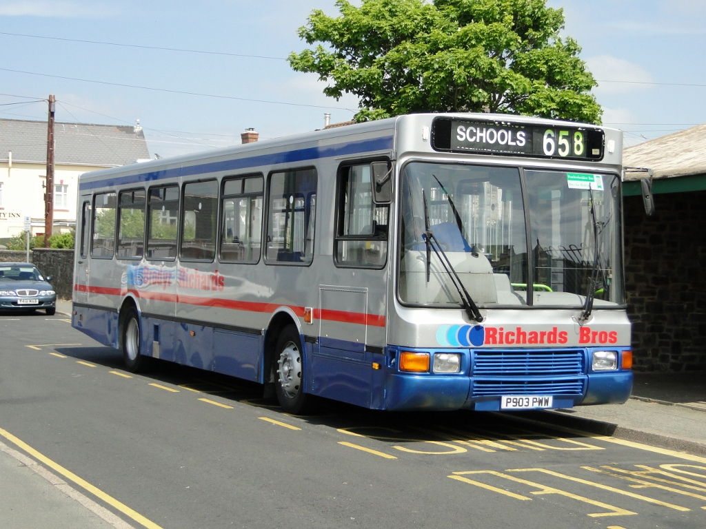 Richards Bro's Northern Counties bodied DAF P903 PWW seen waiting in St David's, Pembrokeshire on 10th June 2013.